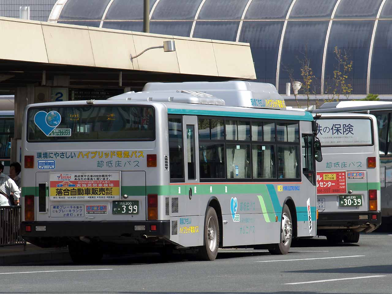 Rear of Mitsubishi Fuso Aero Star HEV (Electric Hybrid Vehicle) product model. License plate: SZH200 KA-399（浜松200か・399） Place: Neighbour of Hamamatsu station: Naka ward, Hamamatsu city, Shizuoka Japan